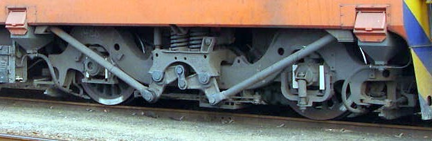 Bogie detail on Class 6E1 Series 4 no. E1466Location: Bayhead Depot, Durban, Kwa-Zulu Natal